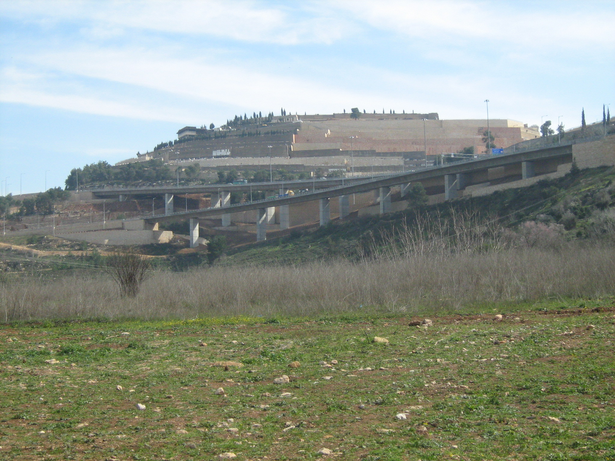 Jerusalem, Motsa Interchange between Highway 1 (Israel) and Jerusalem Route 9 in the Cedars Valley (Emek HaArazim), near Mevasseret Tsion and Motsa. In the background, Jerusalem Giv'at Shaul Cemetery.